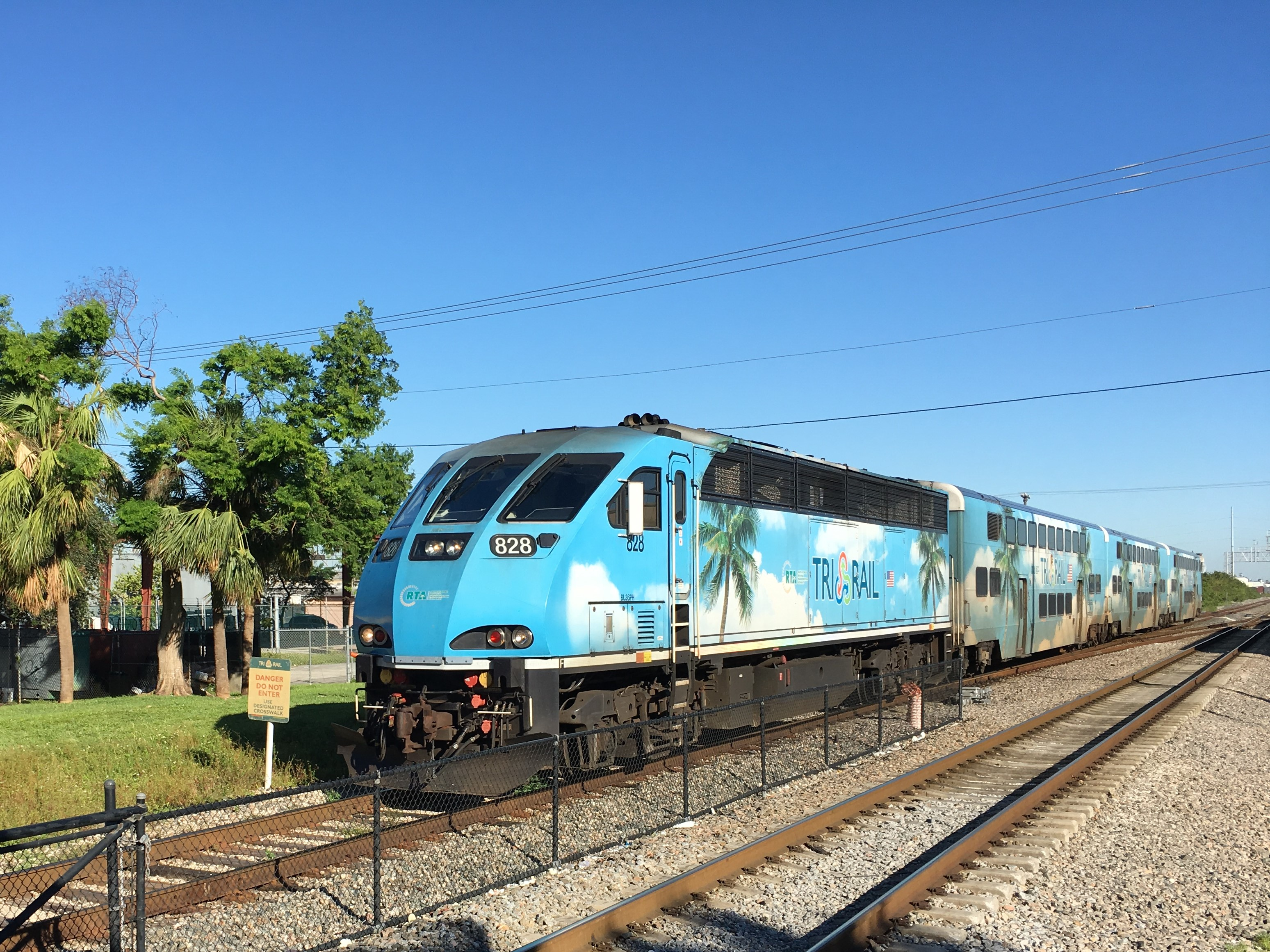 Tri-Rail train coming into Metrorail Transfer Station Hialeah